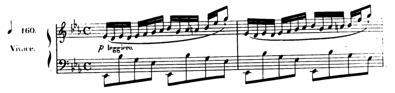 the begining of the impromptu